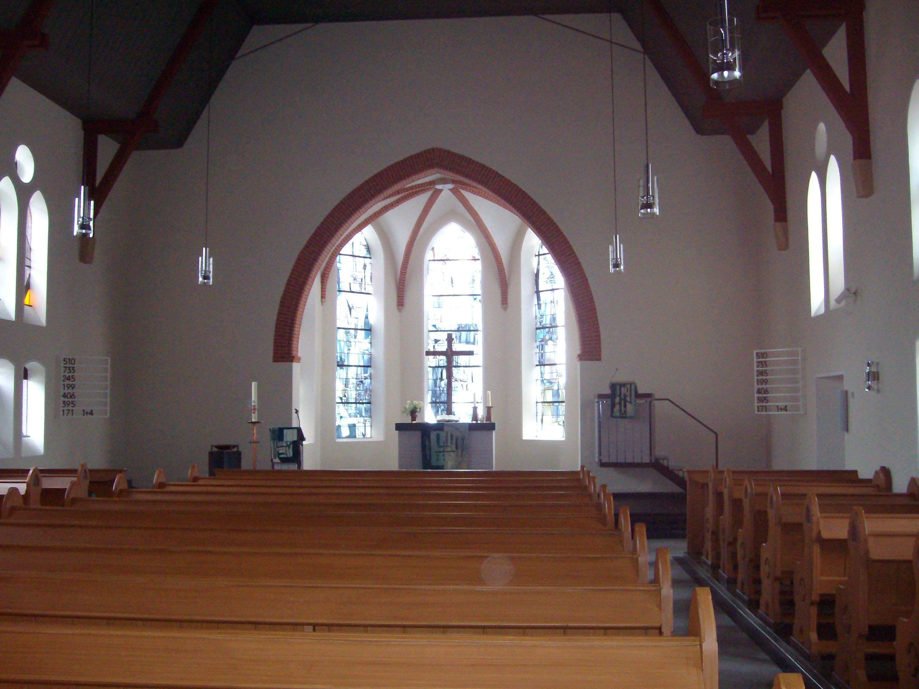 Christ church in Leer, East Frisia, Germany